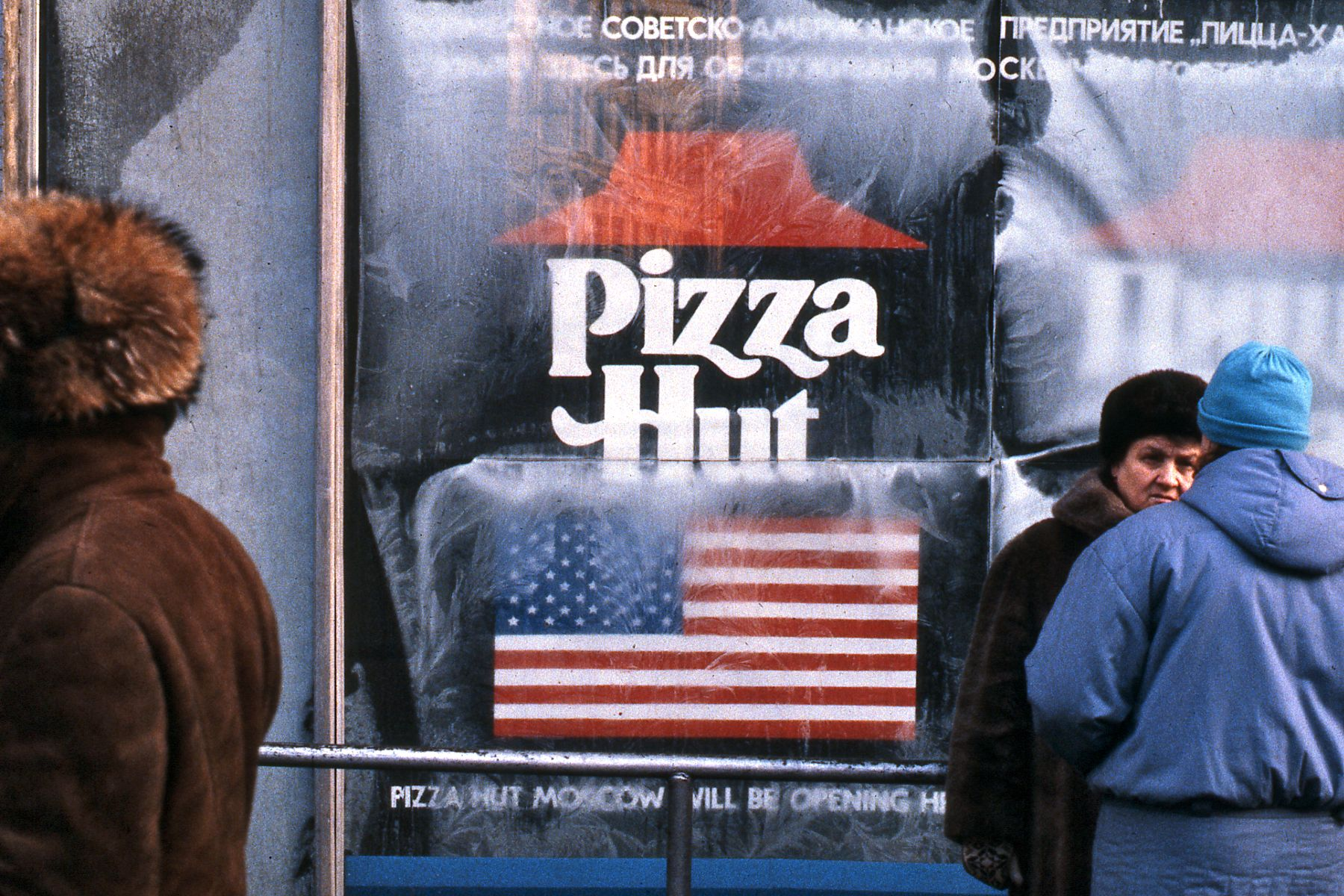 Pizza Hut sign, including an American flag, while the store was being prepared for opening, People dressed in winter garb